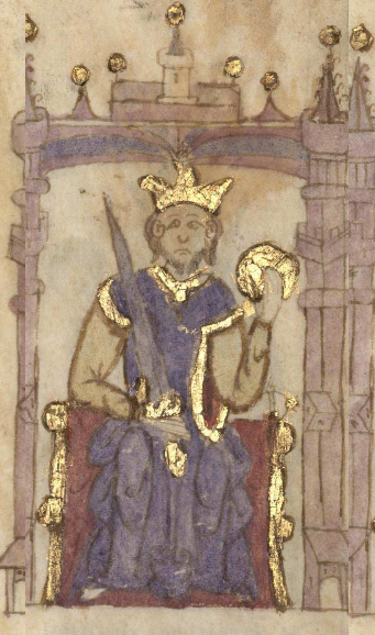 Alfonso I of Aragon